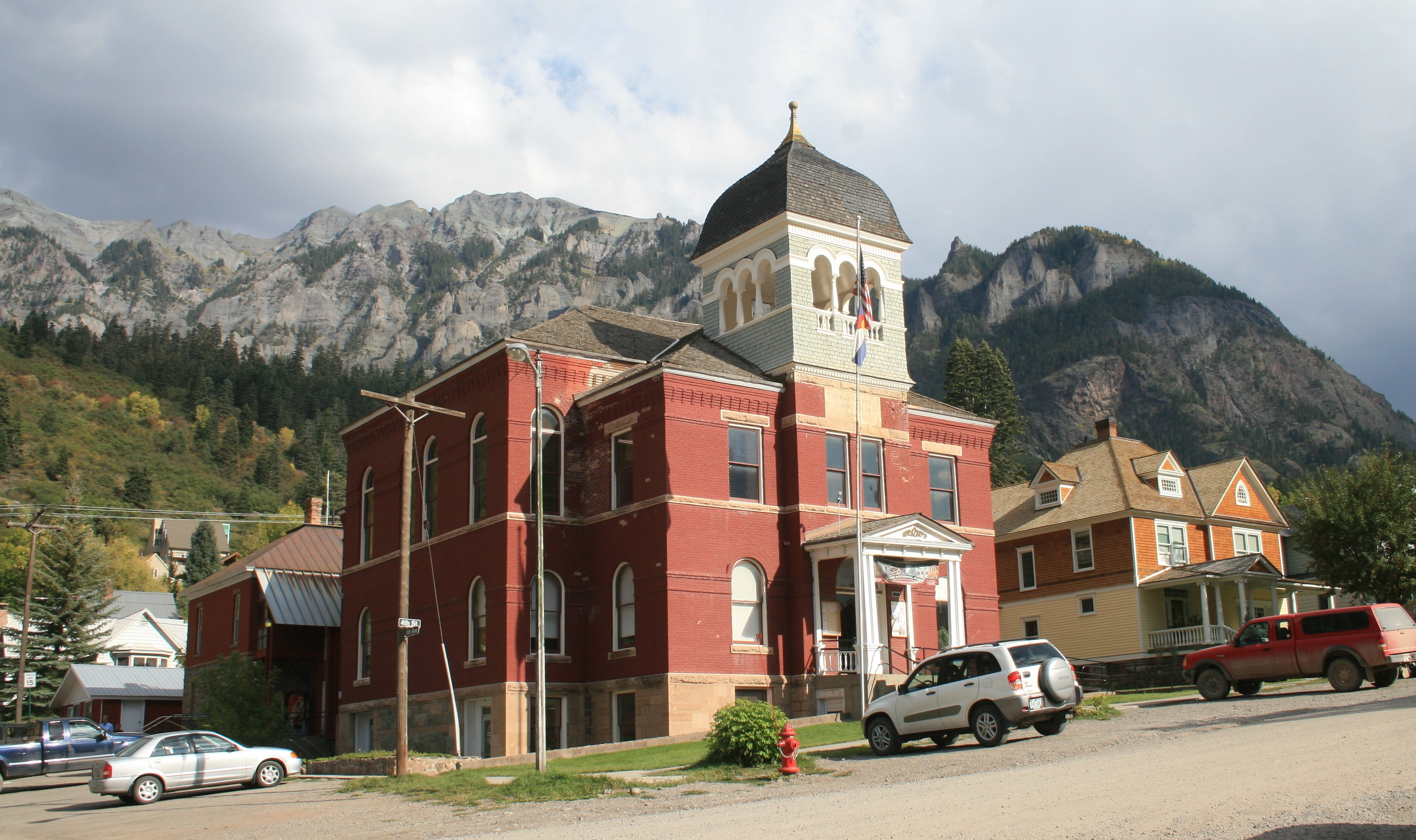 Ouray, CO, USA Historic Court House from 1888 at the South East corner of 4th Street and 6th Avenue, as seen from the 4th Street